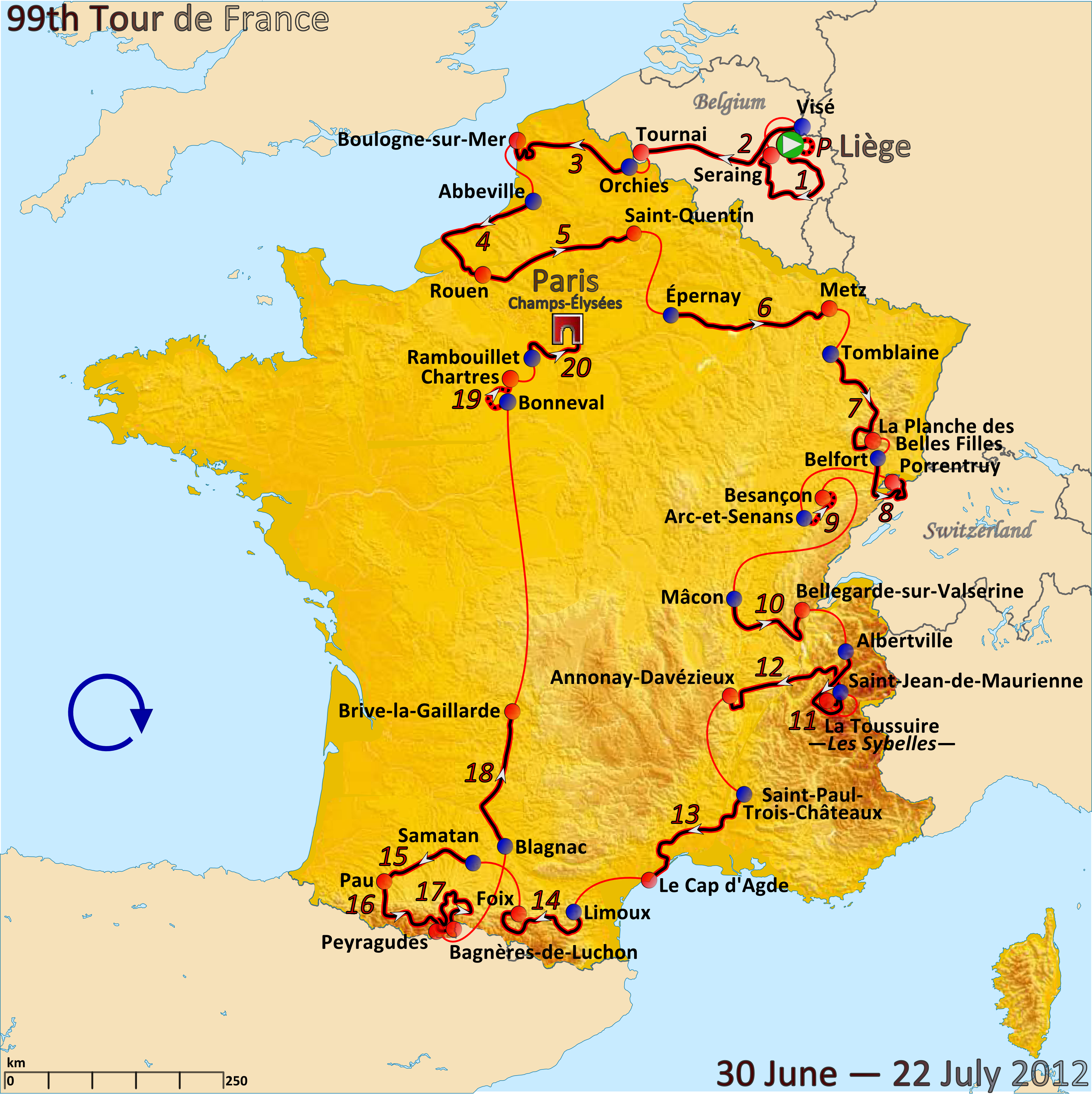 map of the 2012 Tour de France created in Inkscape